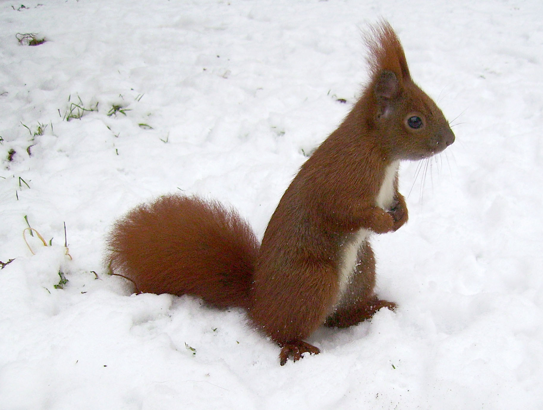 Red squirrel (Sciurus vulgaris) on the snow.